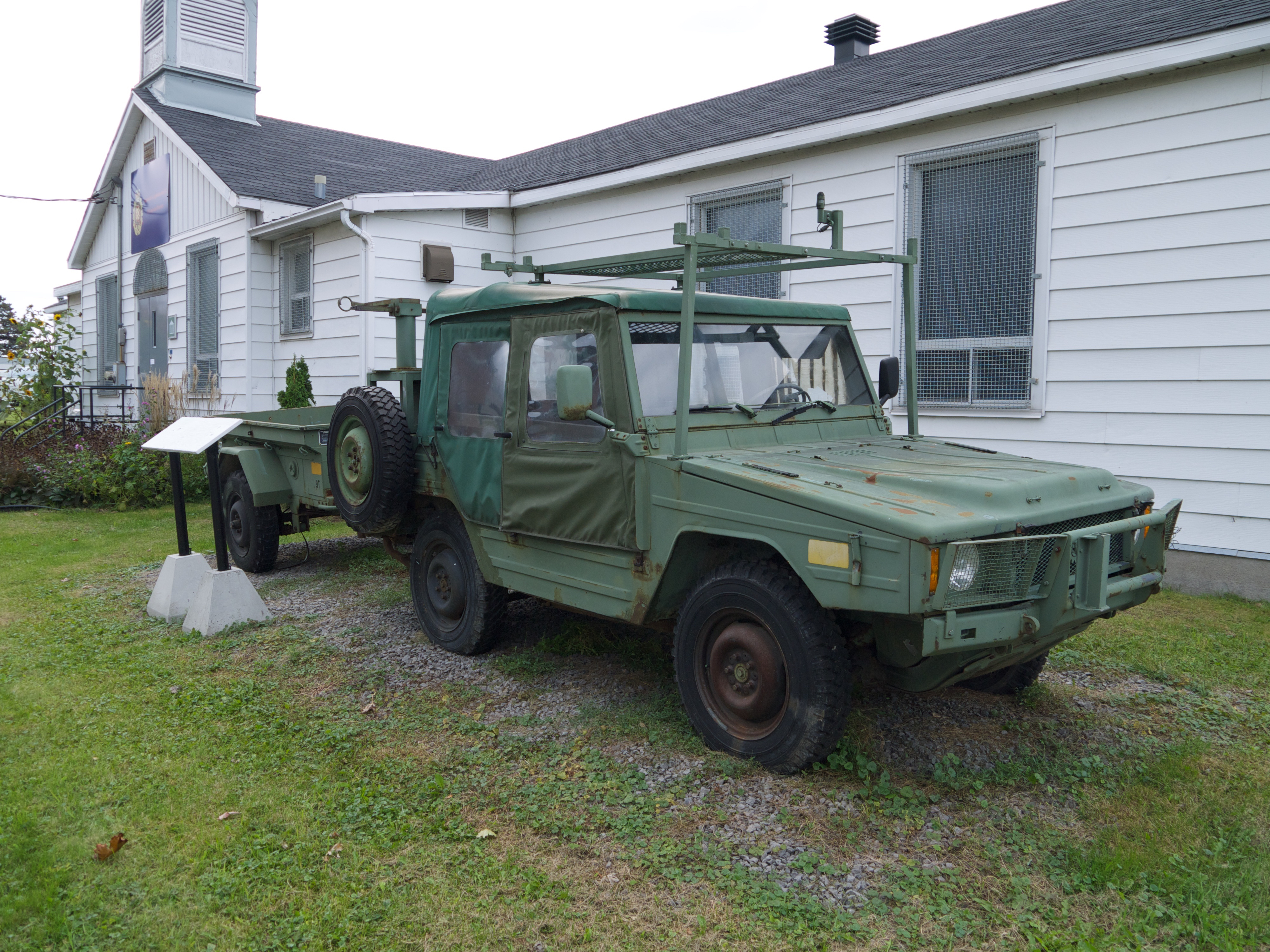 Exhibits at Canadian Forces Logistics Museum.